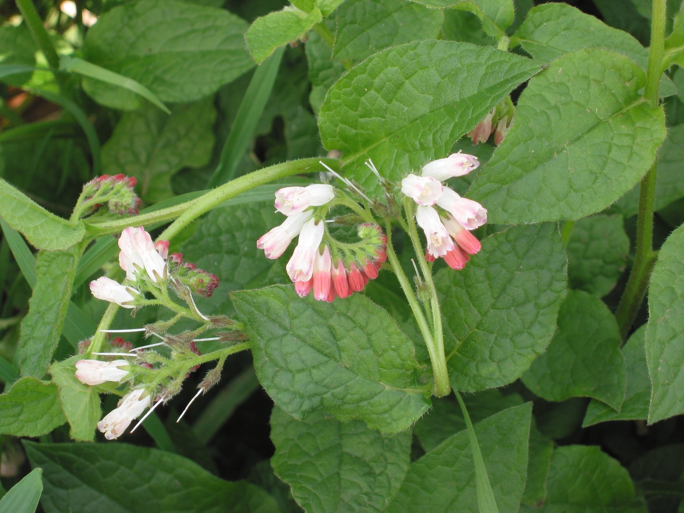 Symphytum ibericum